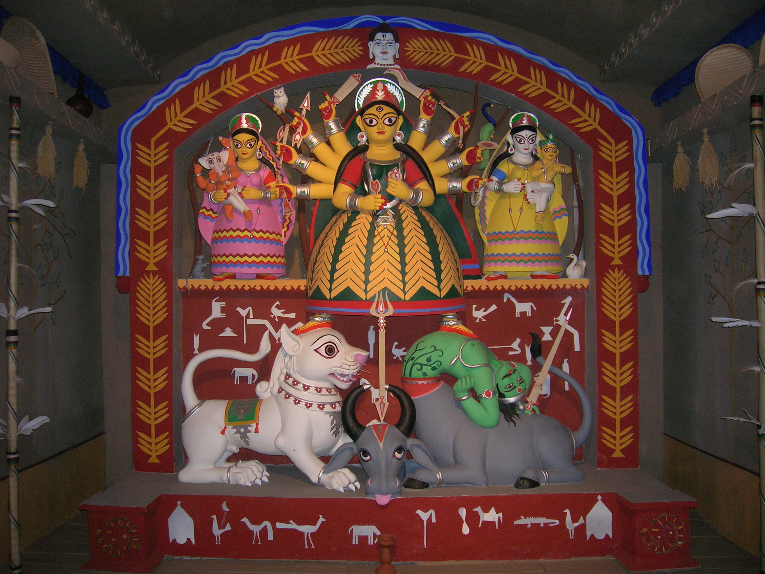 An artistic depiction of Durga and Her Family at Hatibagan Nabin Palli Durga Puja Pandal, North Kolkata, 2010.